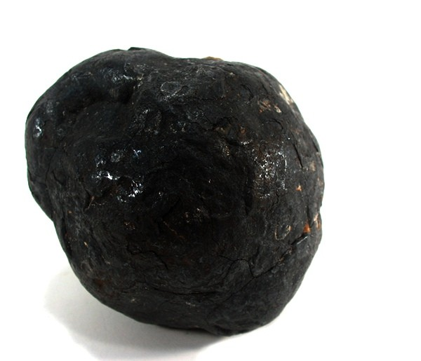 Manganese Oxides Locality: Mid-Atlantic Ridge complex, Atlantic Ocean (Locality at ) Ugliest specimen first! This is a true deep-ocean nodule of nearly pure manganese spewed out by vents at the mid-Atlantic rift. It weighs shockingly little, 155 grams despite being the size of a tangerine. This was picked up on some deep-ocean exploration, I was told. Victor Yount had some for sale in the late 1980s, of which I assume this is one such piece. 6.4 x 5.5 x 5.1 cm